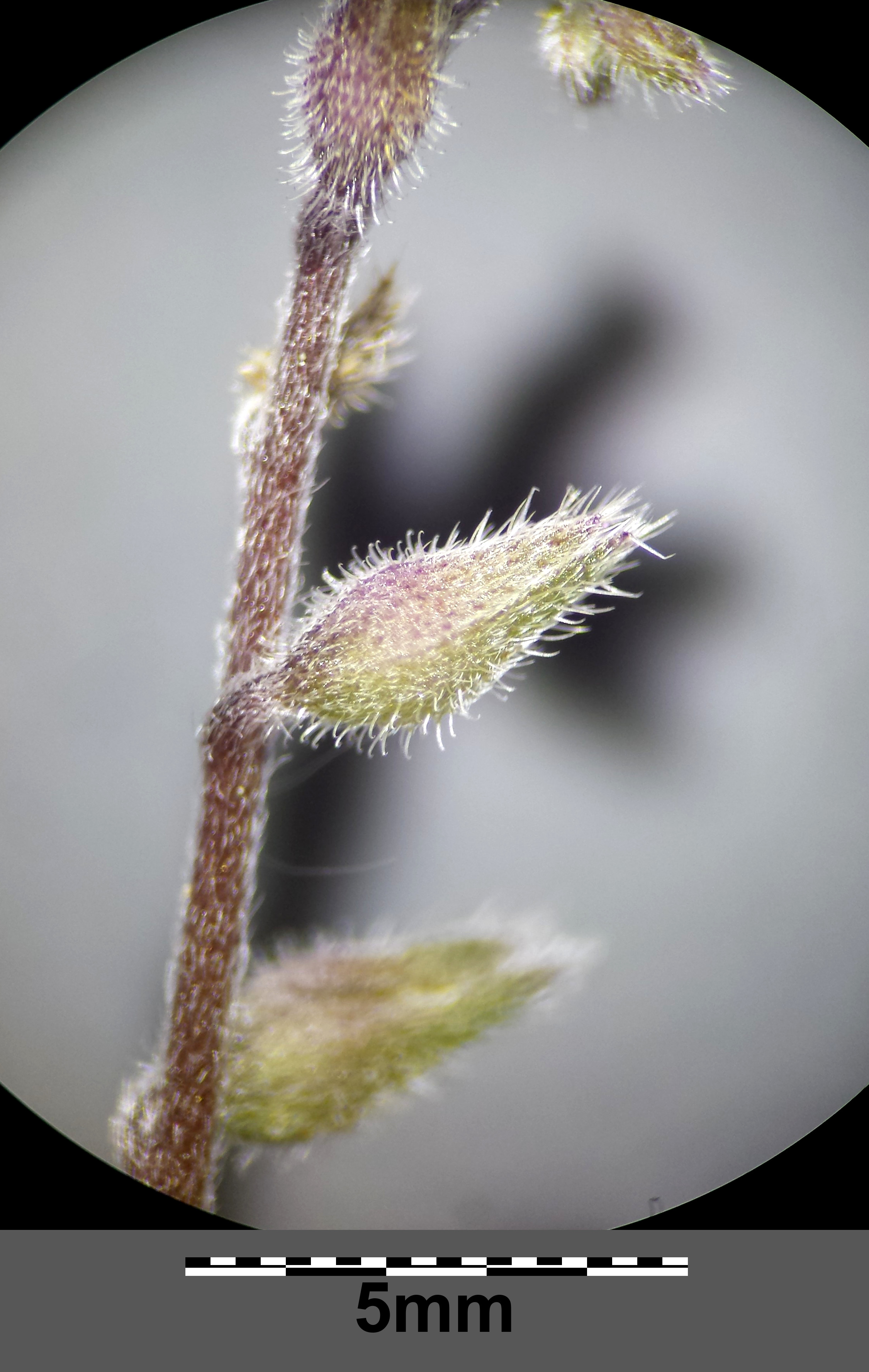 Inflorescence Taxonym: Myosotis stricta ss Fischer et al. EfÖLS 2008 ISBN 978-3-85474-187-9 Location: Floridsdorf rail station, Vienna-Floridsdorf - ca. 160 m a.s.l. Habitat: sandy area